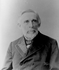 George S. Boutwell, the first Commissioner of Internal Revenue Service